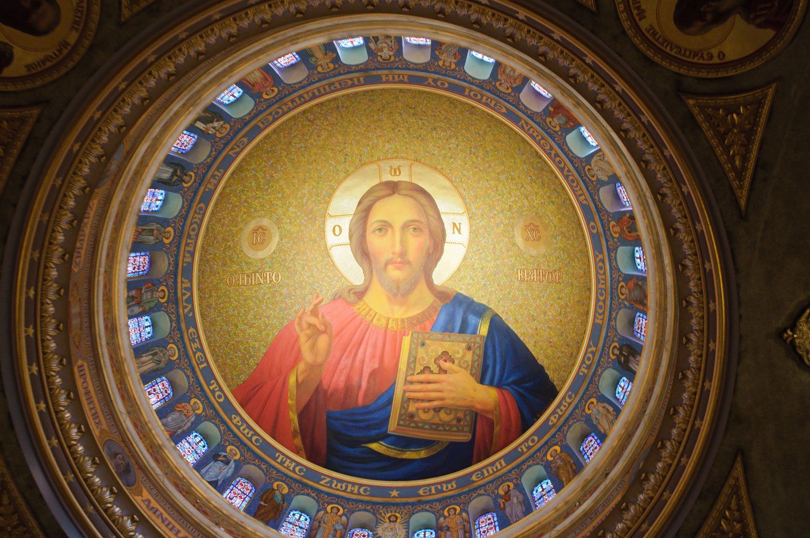 Dome interior of St. Sophia Cathedral (built 1952) — located in the Byzantine-Latino Quarter of the Harvard Heights neighborhood, south of Koreatown in Central Los Angeles. Every year, St. Sophia's is the host of the Los Angeles Greek Festival. "I am visiting the beautiful Greek Orthodox cathedral, consecrated in 1948."